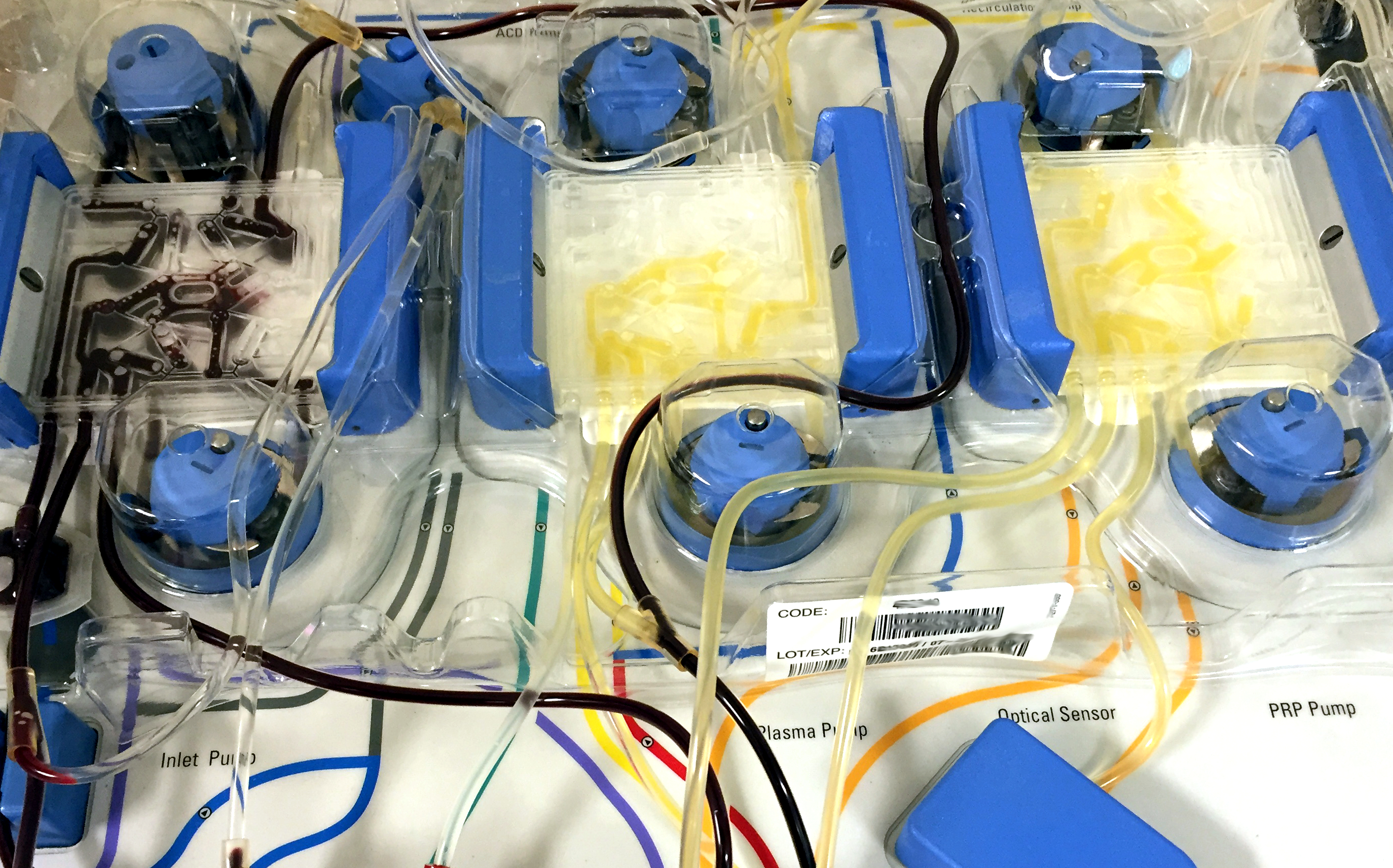 An apheresis machine, a device that separates blood into its various components. Credit: NIAID